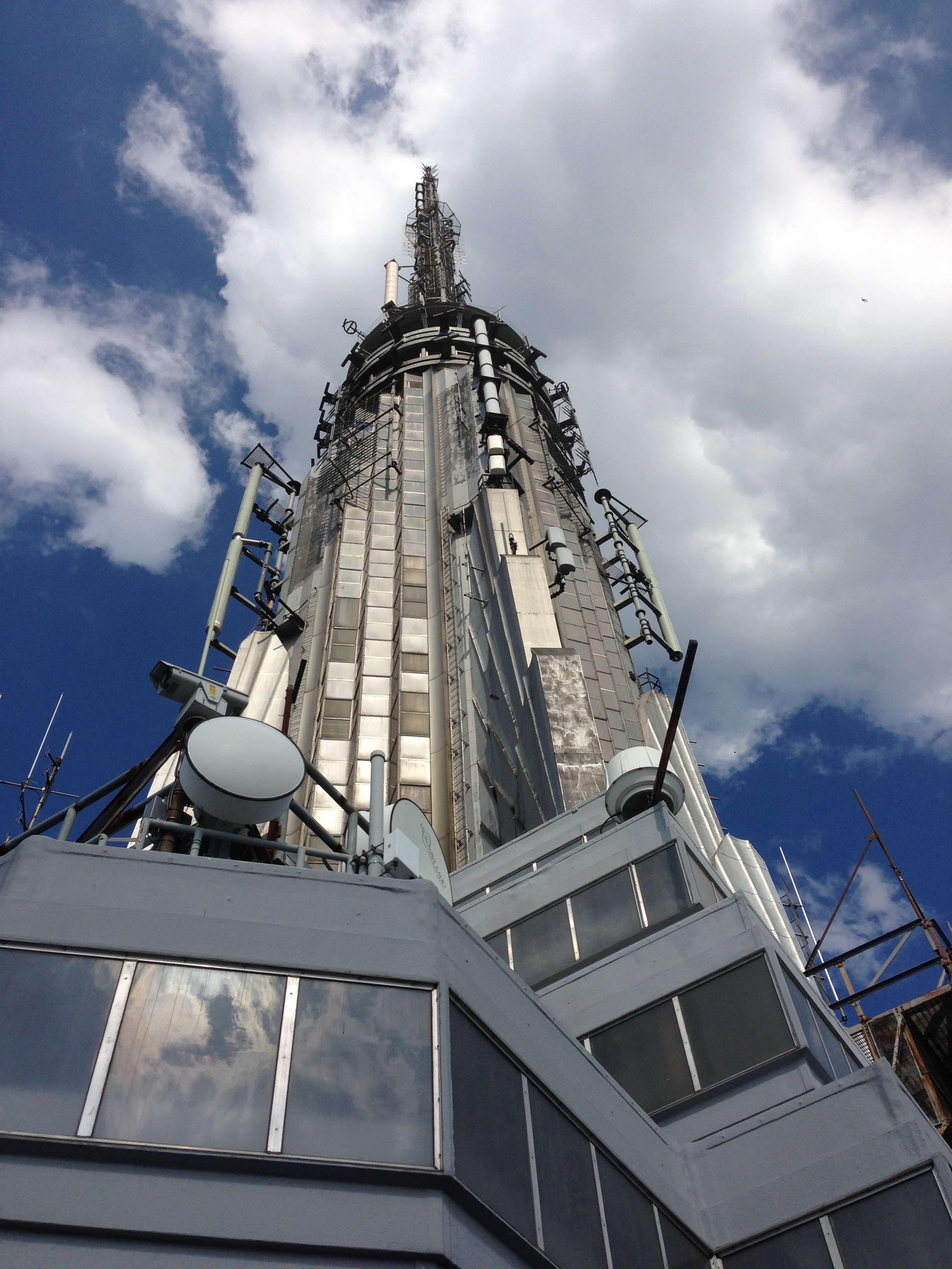 The top of the Empire State Building with a sky view background